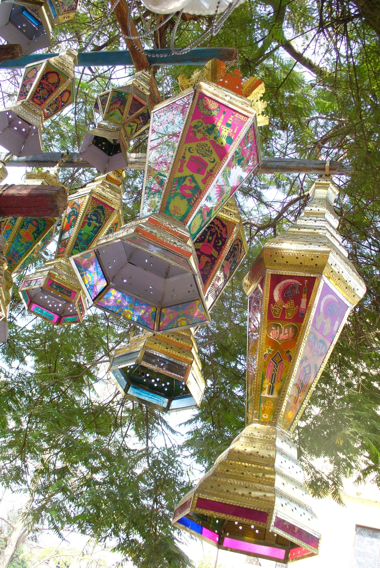 Ramadan lanterns from below, Road 9, Maadi, Cairo, Egypt